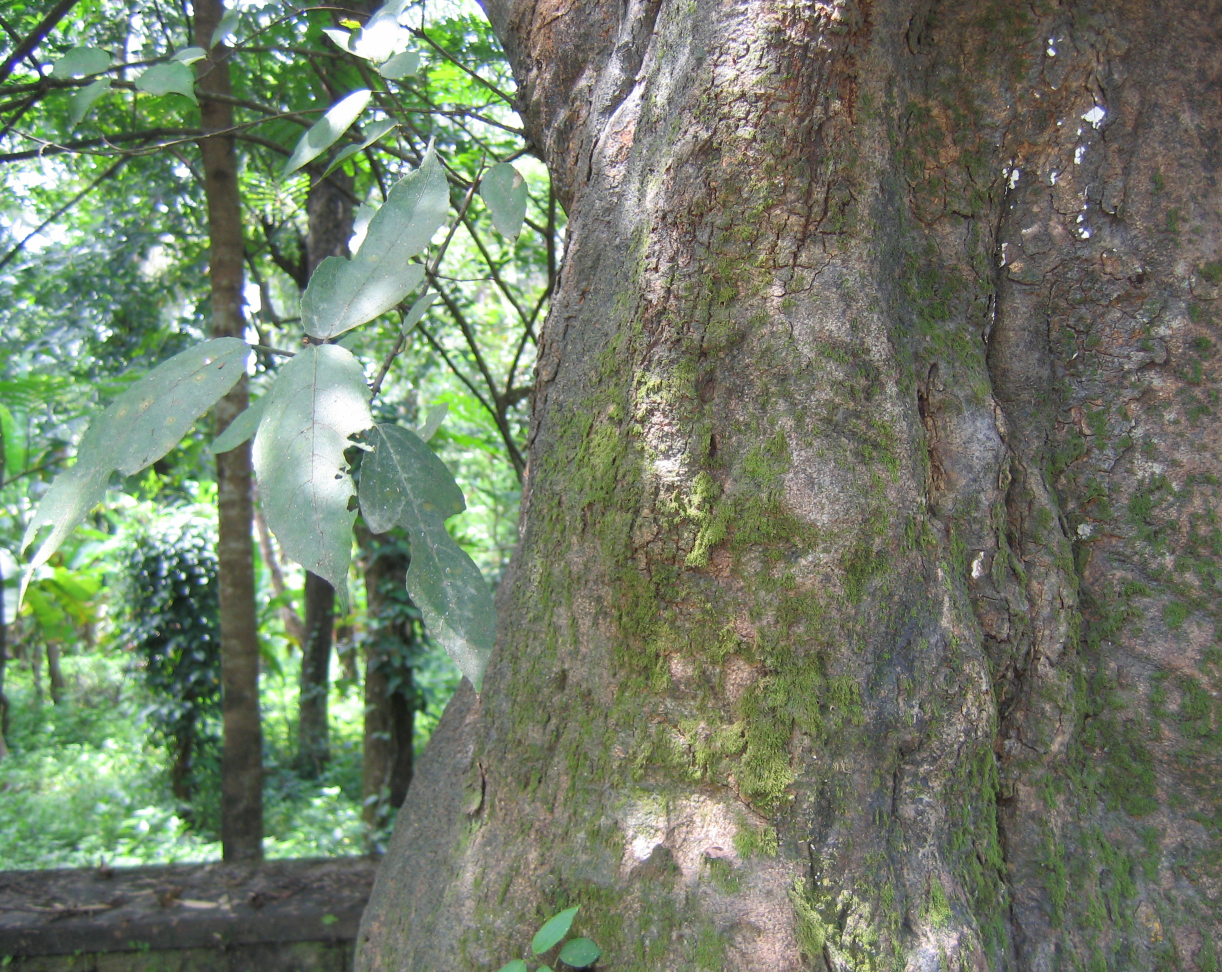 Ficus exasperata - തേരകം